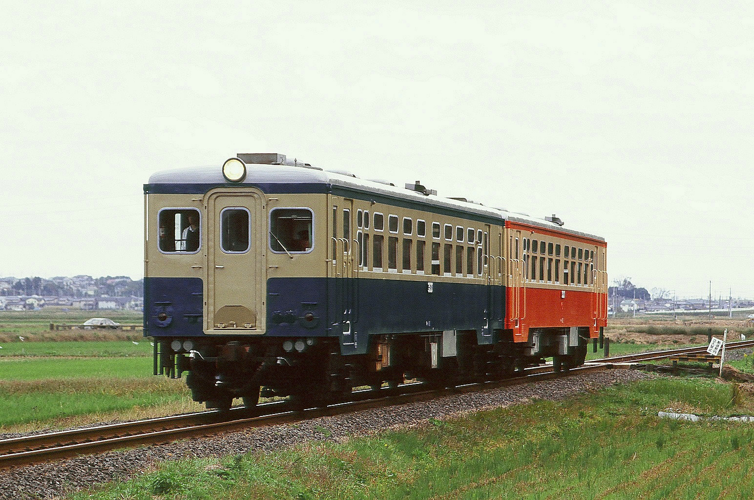 Two Japanese Diesel railcars, class KiHa 11, part of Kiha 45000 series with 728 in all, produced 1953–1956